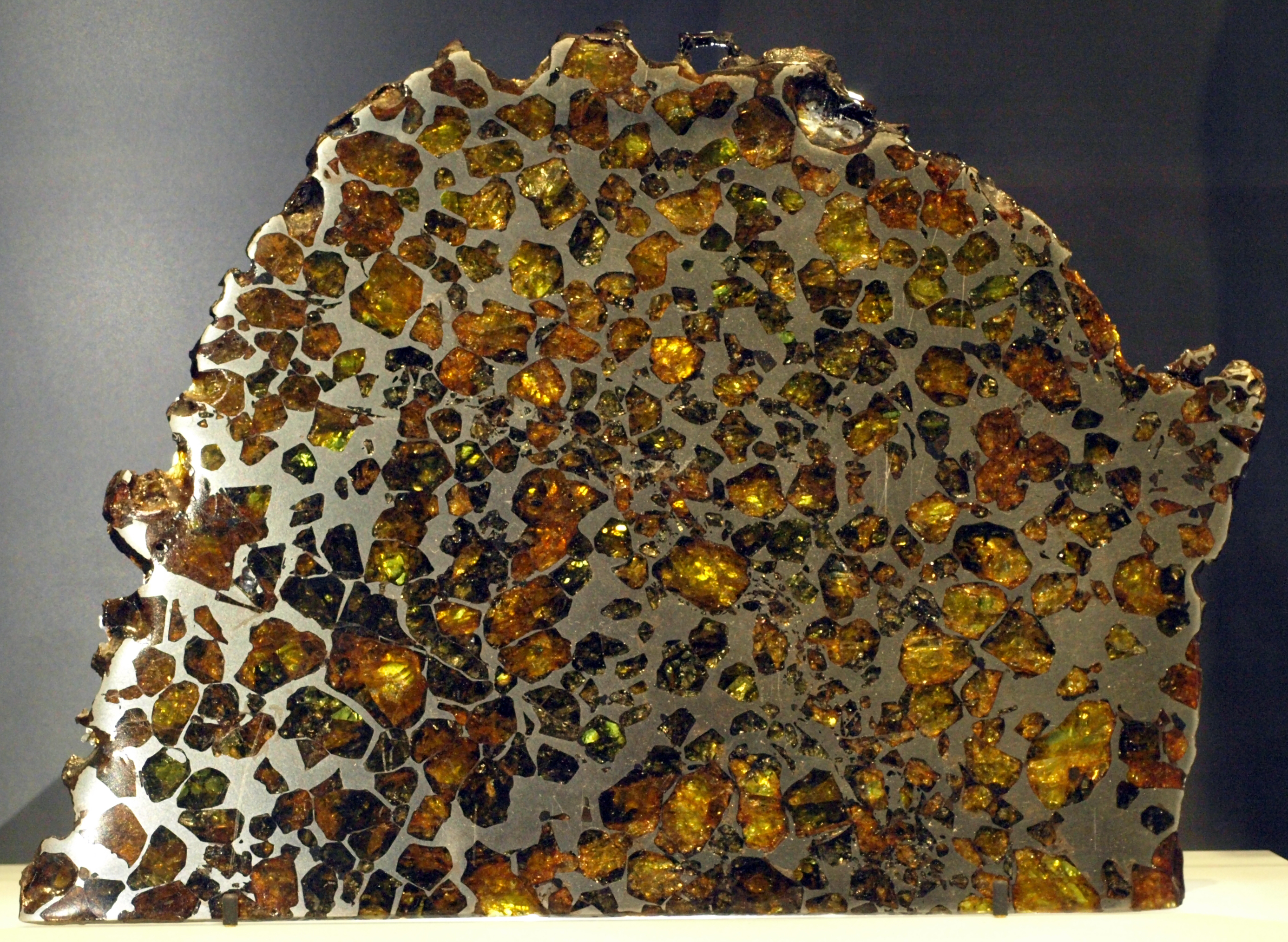 An example of a Pallasite meteorite (from the Esquel fall) on display in the Vale Inco Limited Gallery of Minerals at the Royal Ontario Museum.